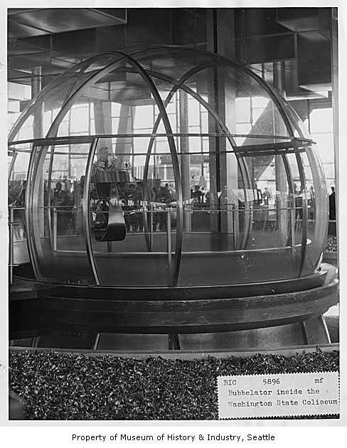 Description: "Empty - the bubbleator descends for another 100 passengers to the World of Tomorrow in the center of the Washington State Coliseum. On its return trip to the twenty-first century the modernistic elevator rises in a glow of gold light while passing through shimmering reflections from the rainbow of the future world." Here, the Bubbleator rises to the upper floor of the Washington State Coliseum, now Key Arena. View source image . More information on the commercial rights for this photo . Part of King County Snapshots University of Washington Libraries . Brought to you by IMLS Digital Collections and Content . Unrestricted access; use with attribution.